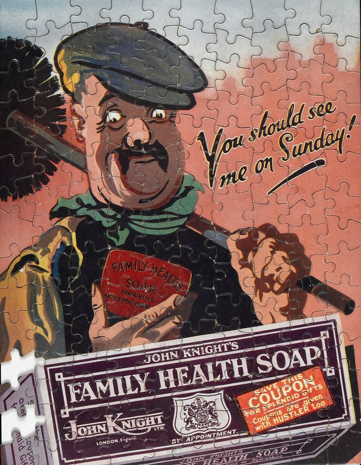 Jigsaw for John Knights "Family Health Soap". Credit: Wellcome Collection. Attribution 4.0 International (CC BY 4.0)